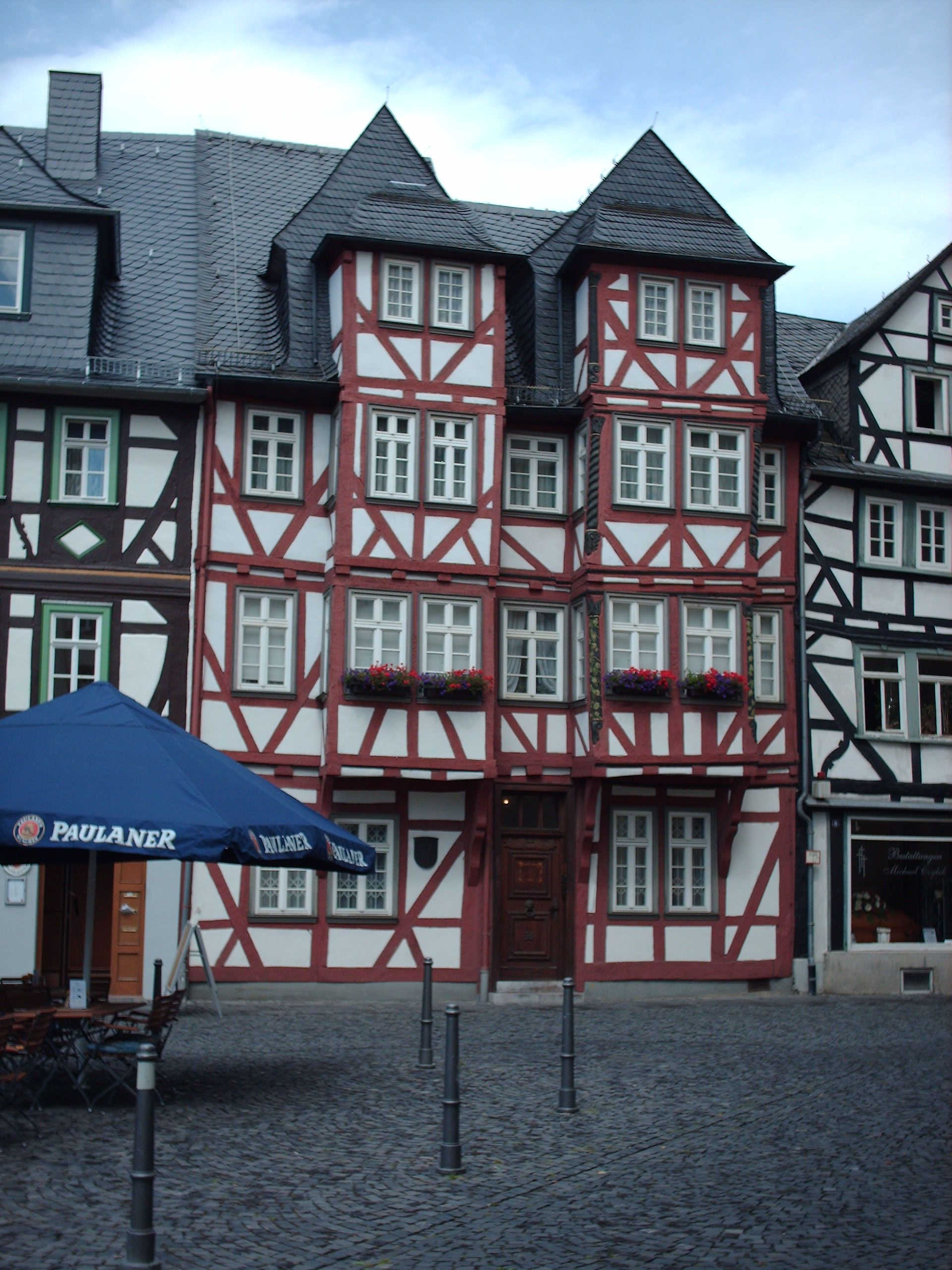 Jerusalemhaus, Wetzlar, Germany check usage